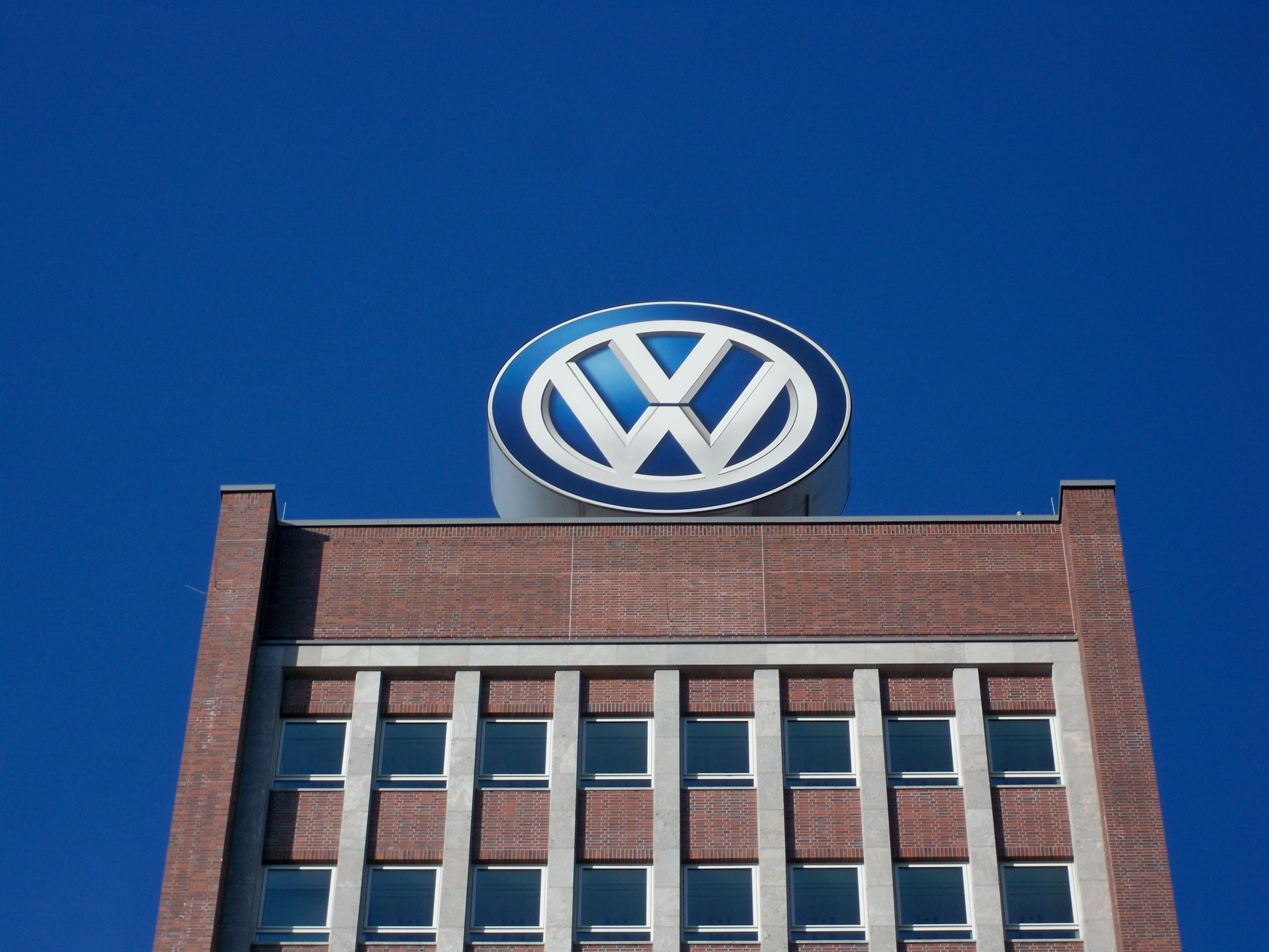 Wolfsburg, Lower Saxony, Volkswagen, Markenhochhaus with VW trademark sign (renewed 2016)